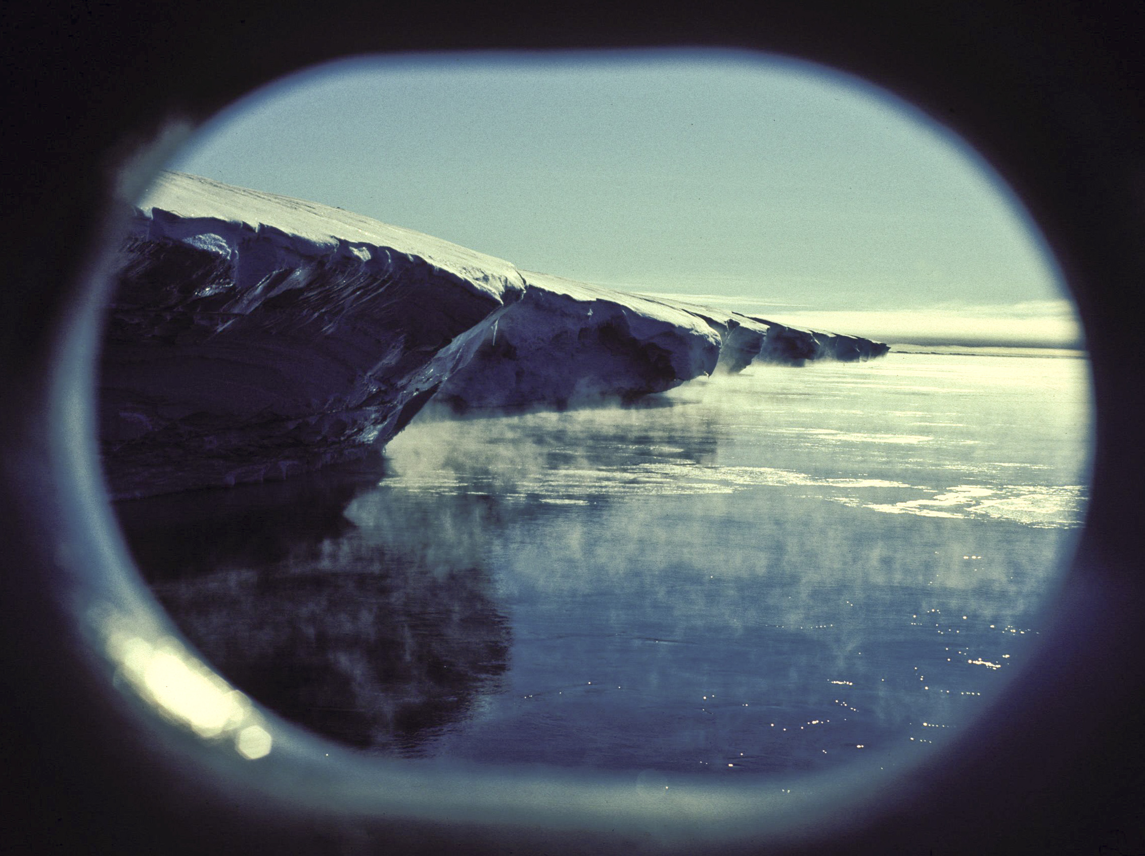 Edge of the Filchner Shelf Ice, southern Weddell Sea, Antarctica